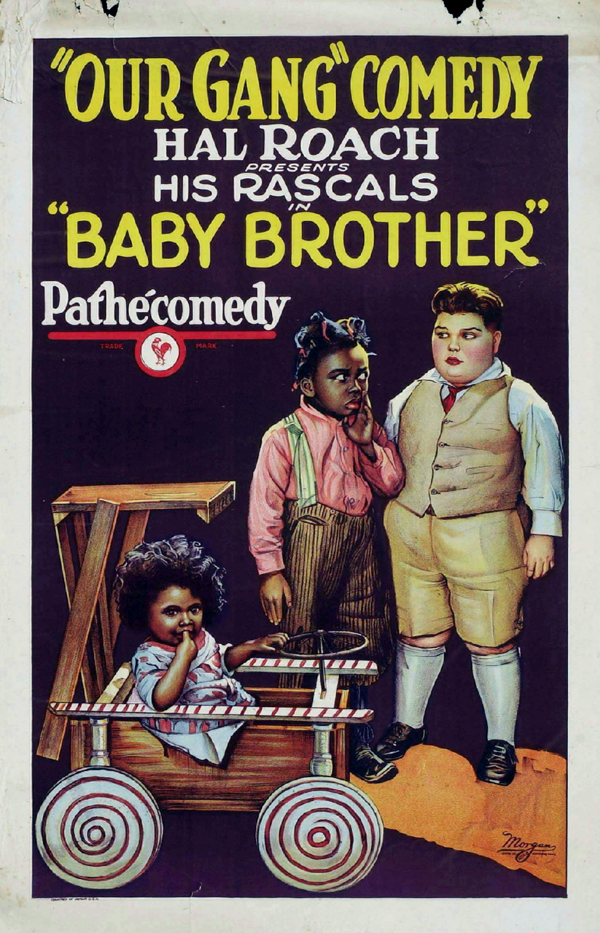 Poster for the 1927 Our Gang film Baby Brother. The item has no copyright markings on it as can be seen in the links above. At lower left is Country of Origin USA. At lower right is the logo of Morgan Litho Co., Cleveland-they printed the poster. Getty Images has a copy of the poster that is a reproduction. Note the Pathe logo is missing, the Morgan Litho logo is also missing and so is "Country of Origin USA".